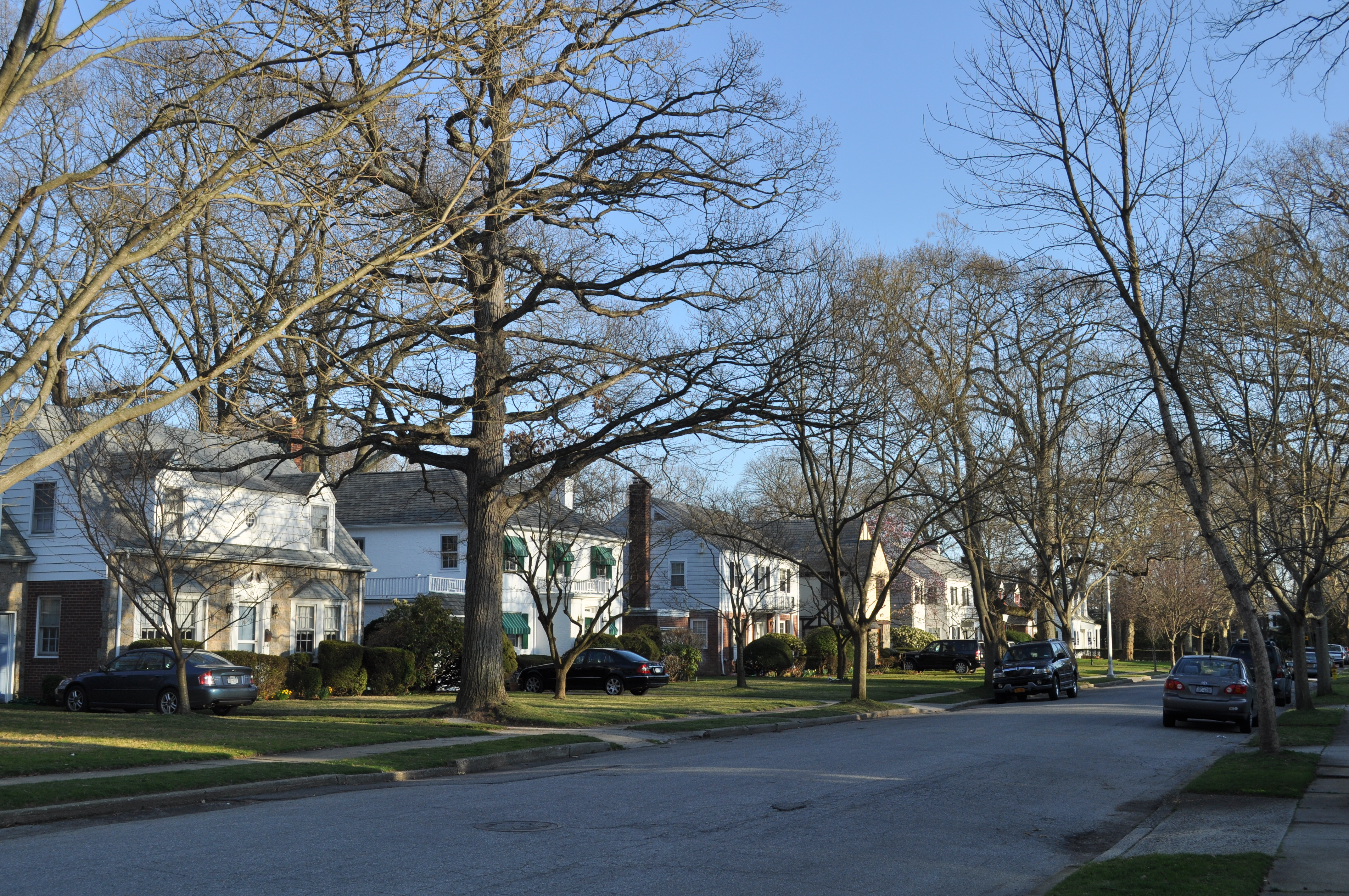 Beverley Parkway from Maxson Ave, looking south toward Wilson Place, Freeport, Long Island, New York.